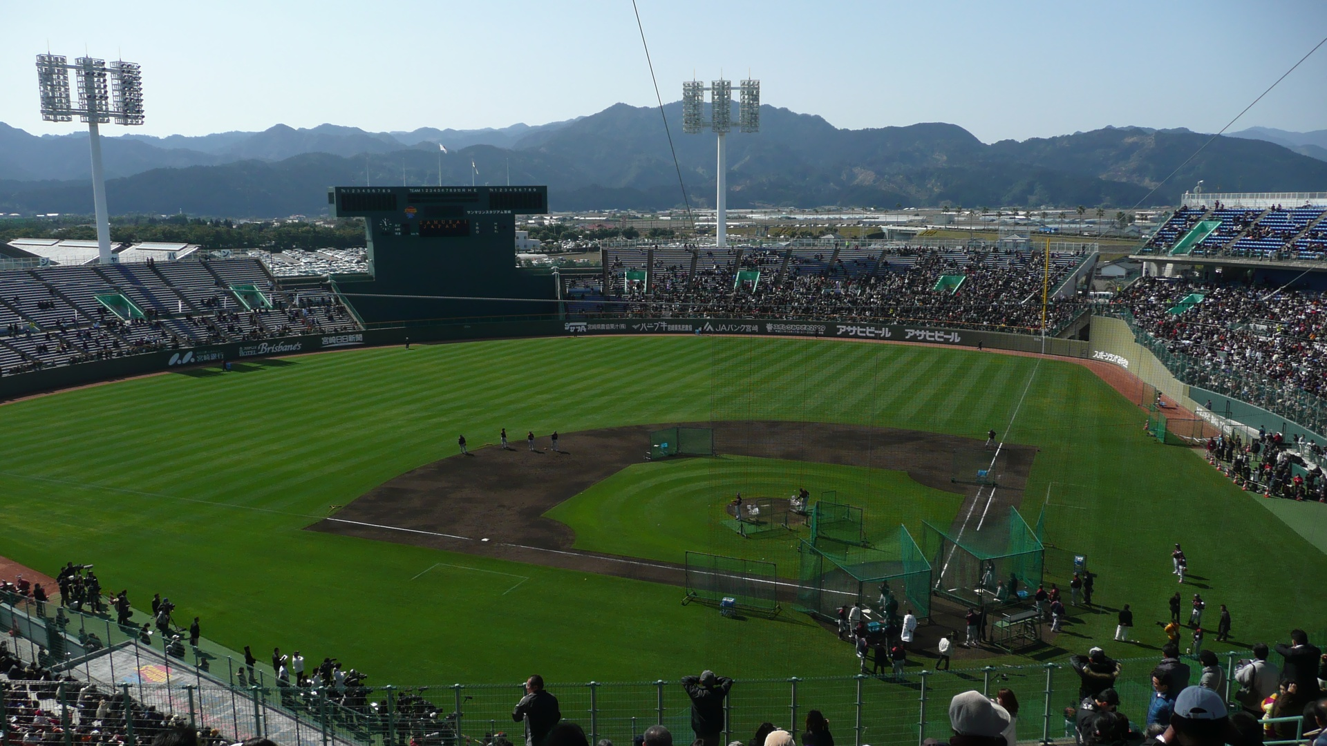 Sun Marine Stadium (Miyazaki City, Japan)